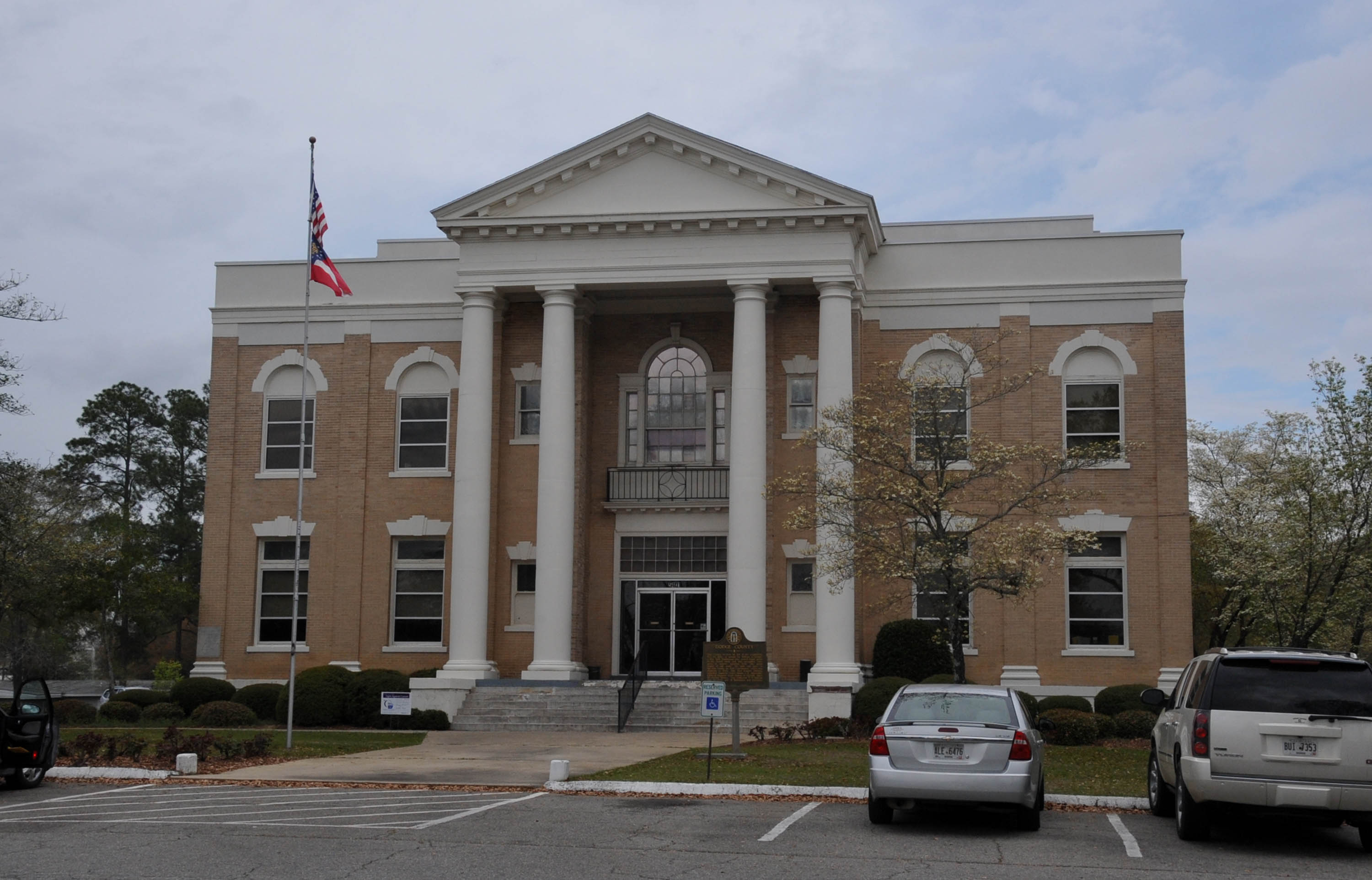 ERECTED CIRCA 1908 IN CLASSICAL REVIVAL STYLE. COUNTY WAS NAMED FOR A NEW YORK LUMBERMAN WHO CONVINCED CONGRESS TO REMOVE TAXATION FROM LUMBER WHICH WAS A GEORGIA STAPLE